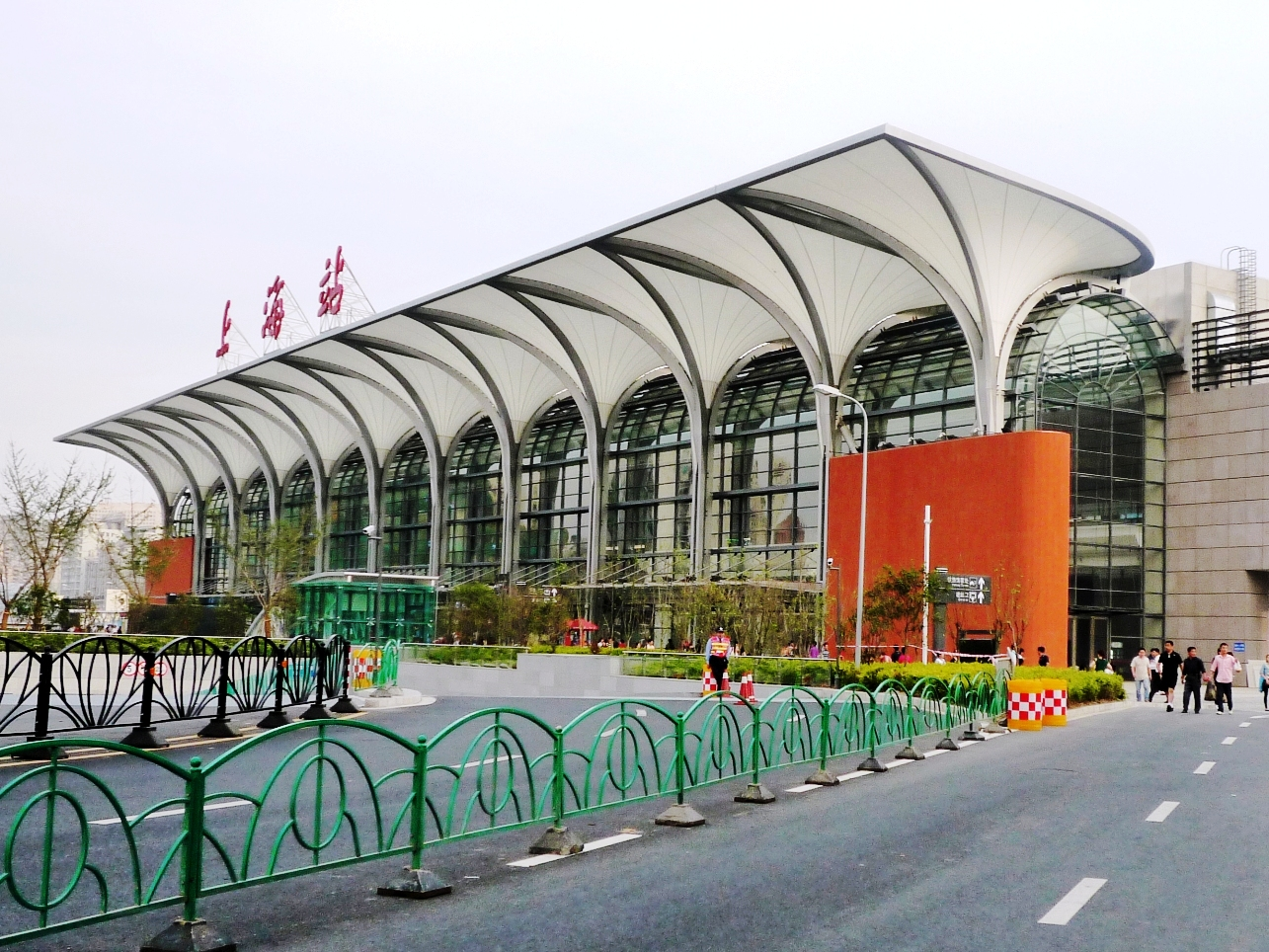 Shanghai_railway_station_north_side_plaza